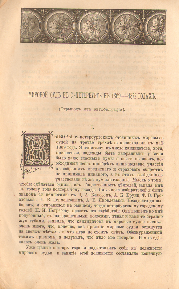 Autobiography by Fyodor Ustryalov